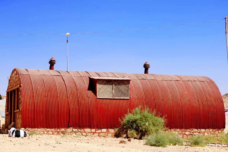 When Britain was the country of Somalia, they built buildings like this to serve their military troops especially wounded or injured persons.